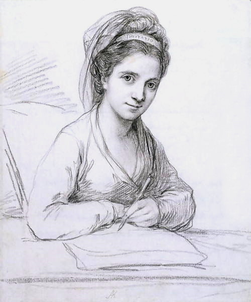 Angelica Kauffman Self-Portrait as Imitatio 1771. Graphite on laid paper, 20 x 17 cm. Yale Center for British Art.